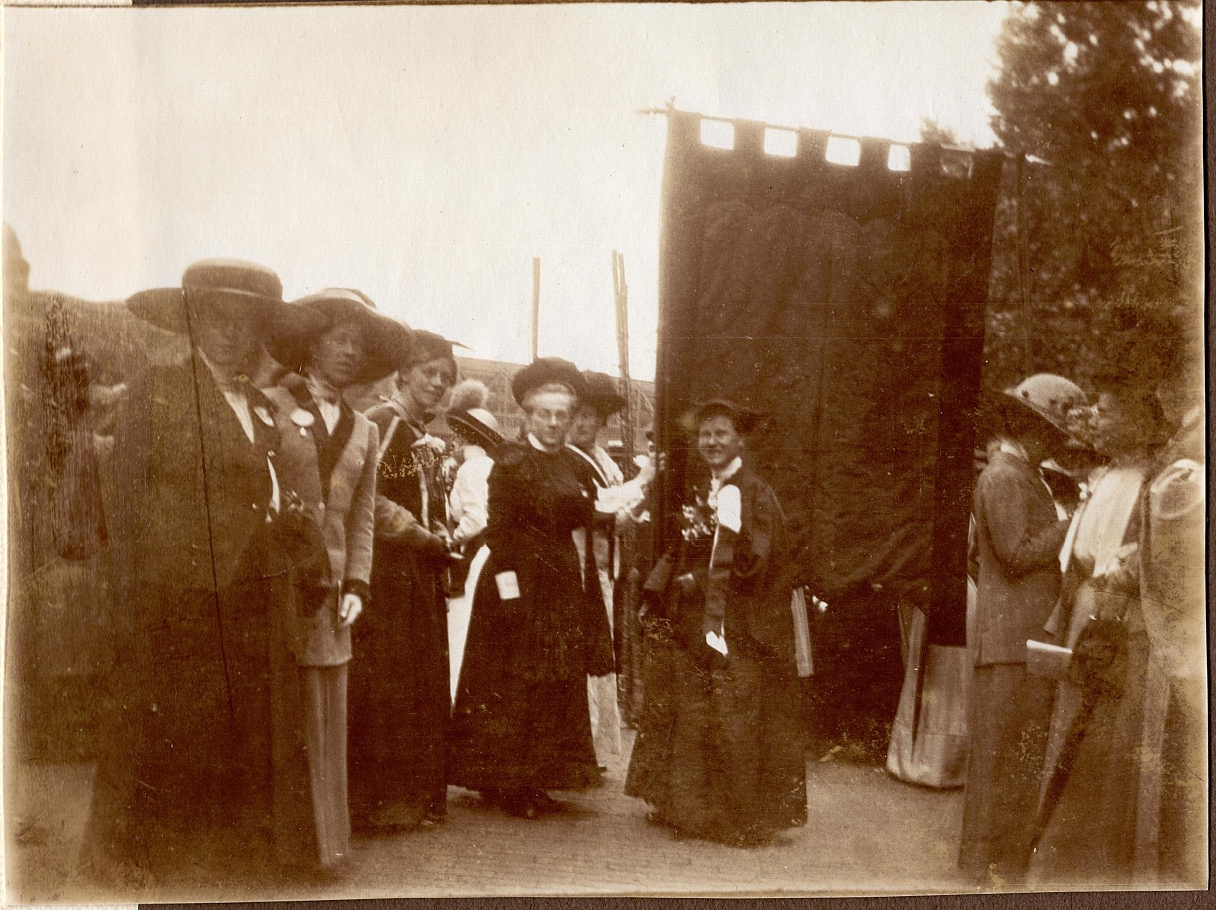 Millicent Garrett Fawcett and Lady Frances Balfour at Women's Coronation Procession TWL 2009 02 084 Women's Coronation Procession on 17 June 1911. Back of NUWSS banner.